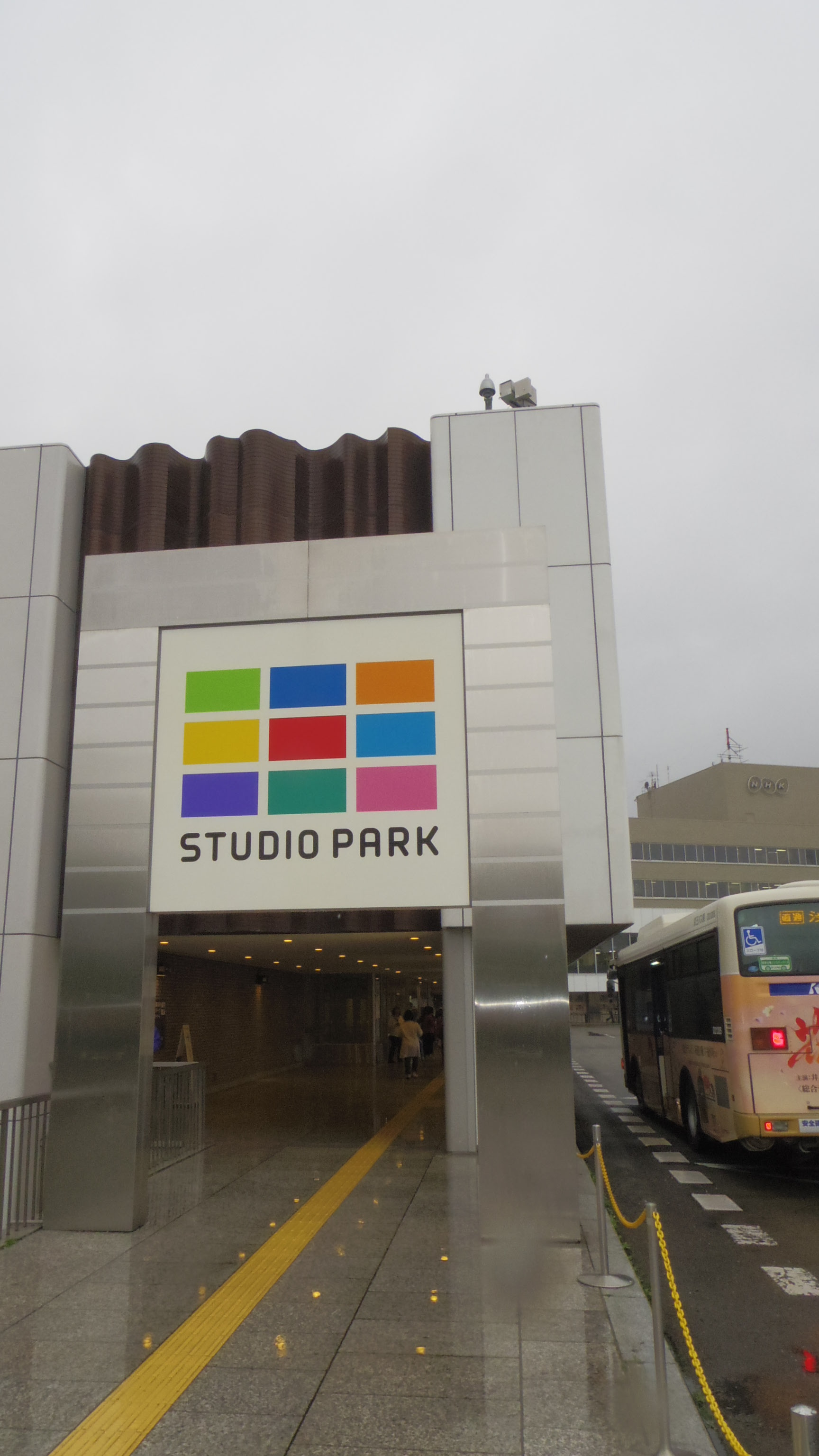 NHK Studio Park